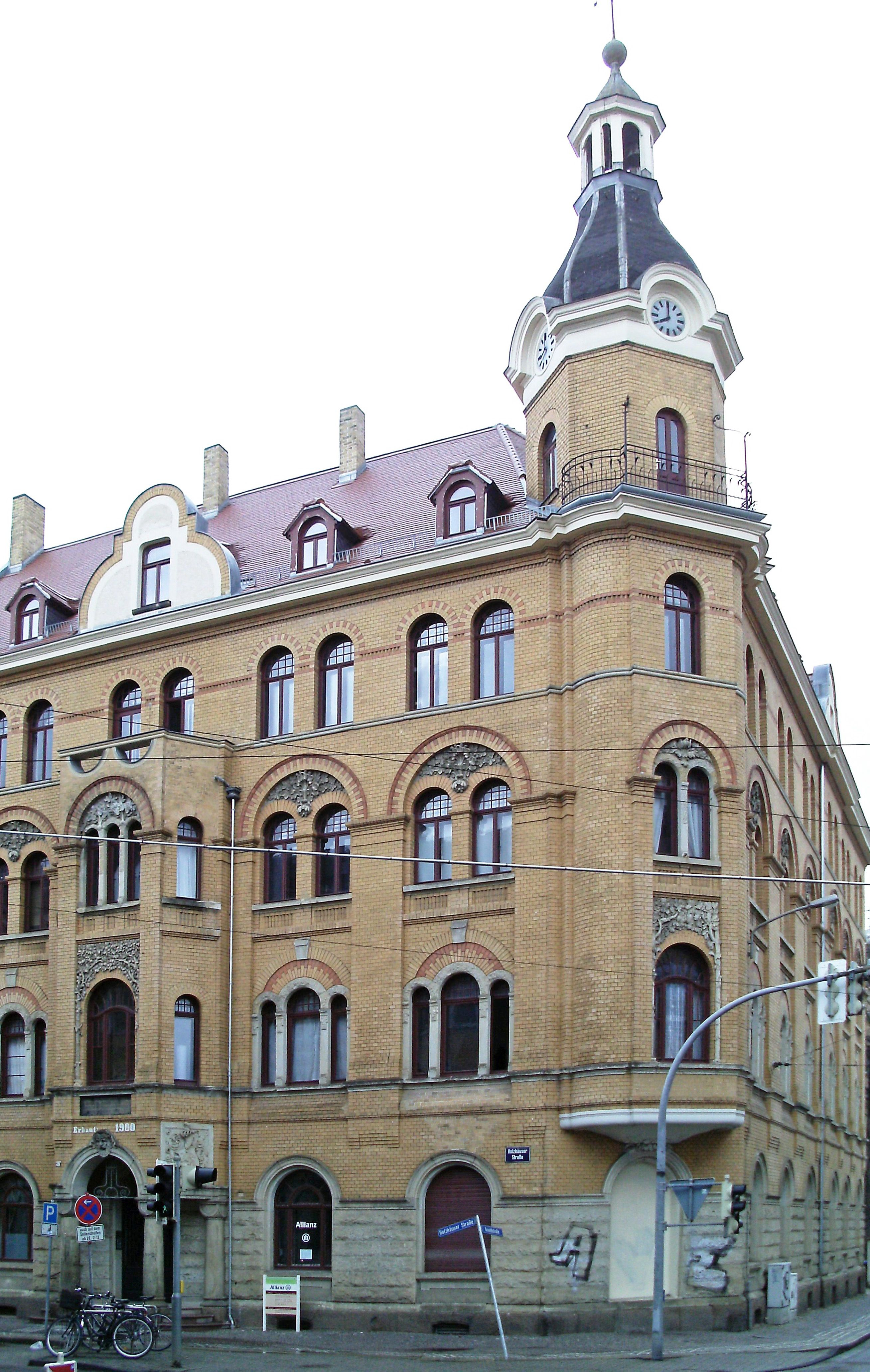 Stötteritz town hall in Leipzig (Saxony)